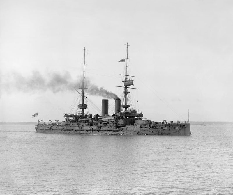 Photo of HMS Bulwark: it is a commercial photo likely taken to produce a series of postcards by H. Symonds & Co of Portsmouth, which is no longer in operation (similar set).